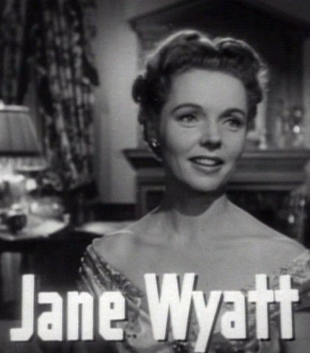 Cropped screenshot of Jane Wyatt from the trailer for the film Gentleman's Agreement.